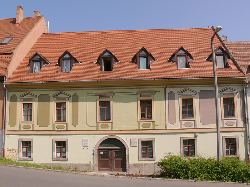 Birthplace of Hungarian writer Sándor Bródy (1863-1924) in Eger